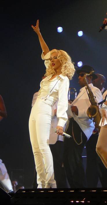 Christina Aguilera singing "Back in the Day" on her "Back to Basics Tour"